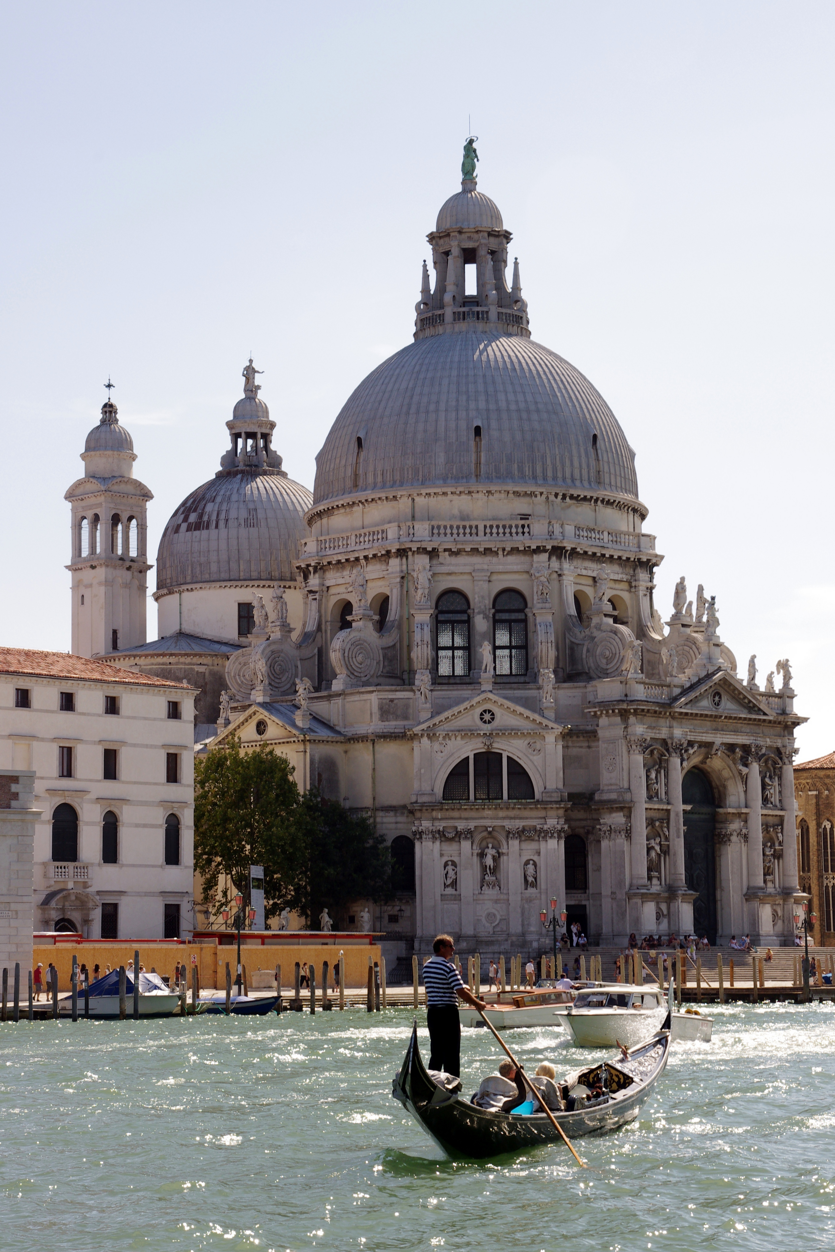 The Basilica of St Mary of Health in Venice